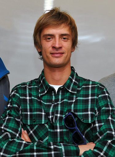 Image of professional snowboarder Nicolas Müller at the StreetLab store in Moscow